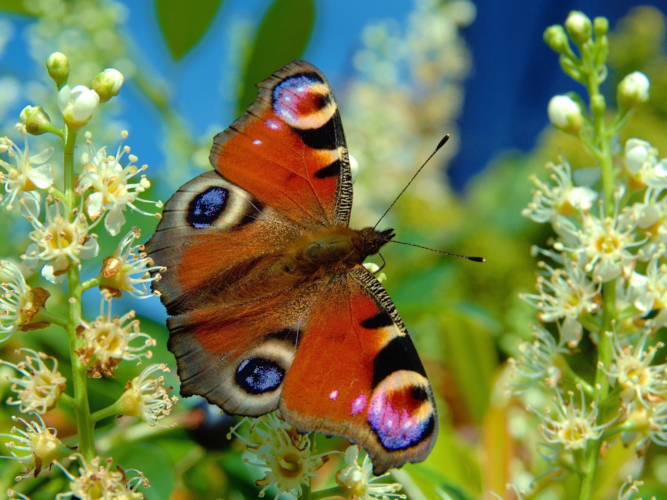 Butterfly Nymphalis io on the flowers of Prunus laurocerasus, in the countryside of Hamois, BelgiumEsperanto: Papilio sur floro de Prunuso